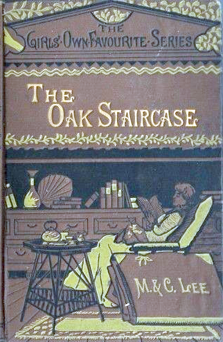 Front cover of 1870s series of children's books